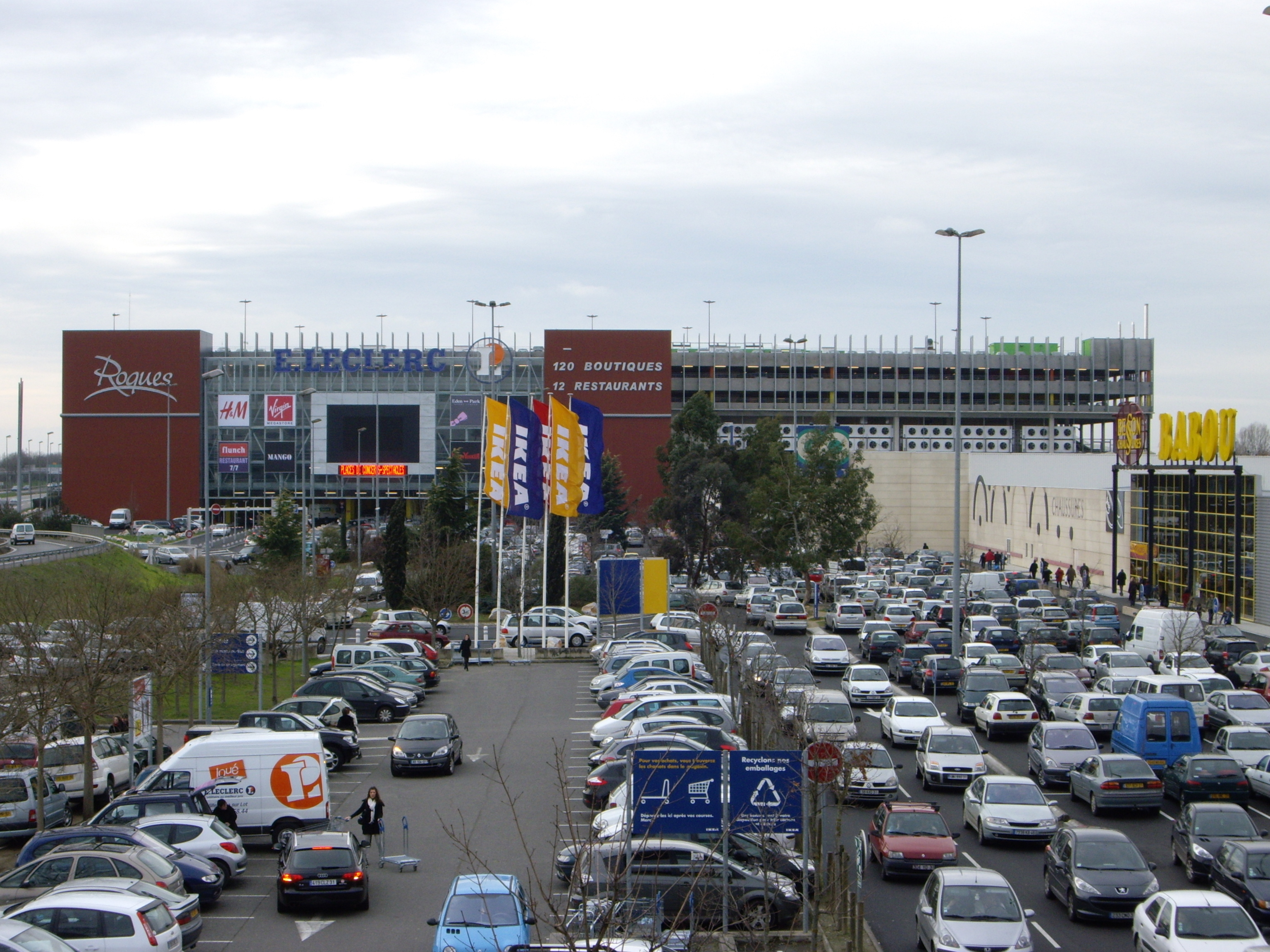 Roques, Haute-Garonne, France : Roques Shopping mall (E.Leclerc: Brunerie & Irissou architects)